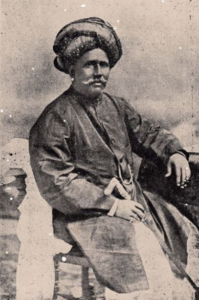 C. W. Thamotharampillai (1832-1901), Ceylon Tamil scholar